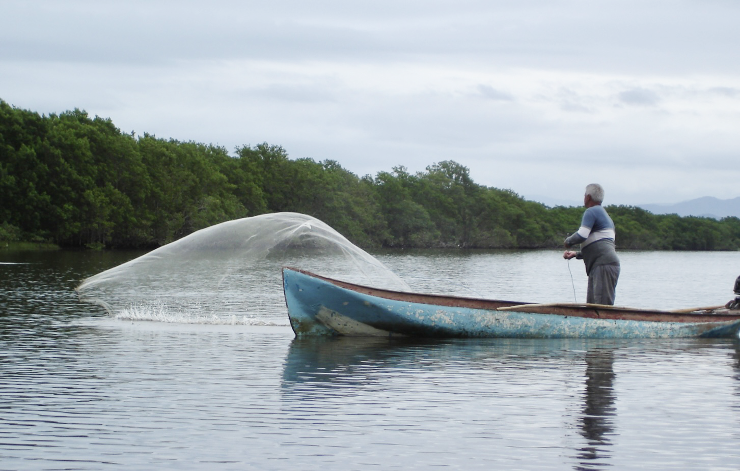 casting net